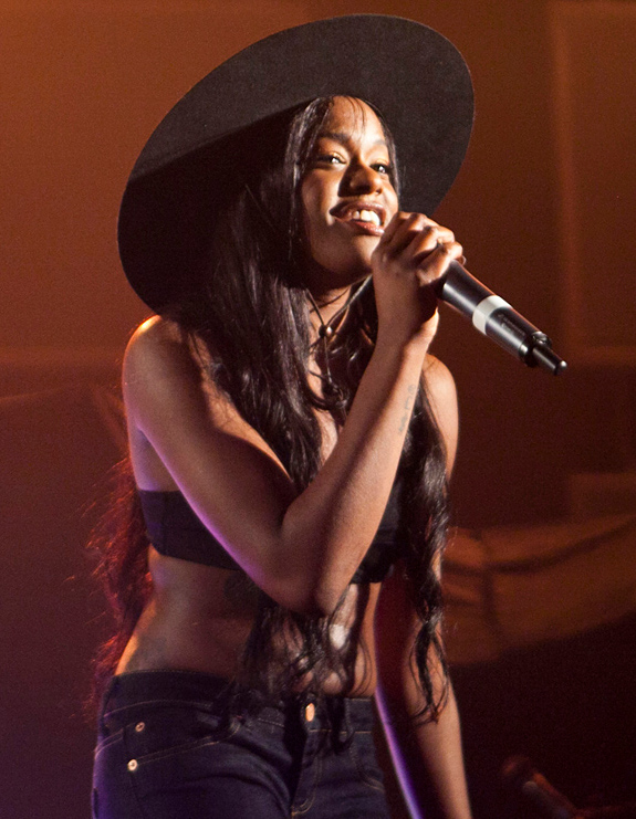 Azealia Banks performs at the 2012 NME Awards at the Brixton Academy in London.